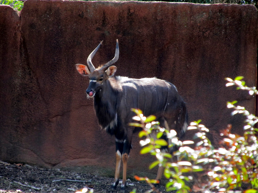 One of my favorite antelope, the nyala is definatly not as common as their relative the kudu, but much more interesting, in my opinion.